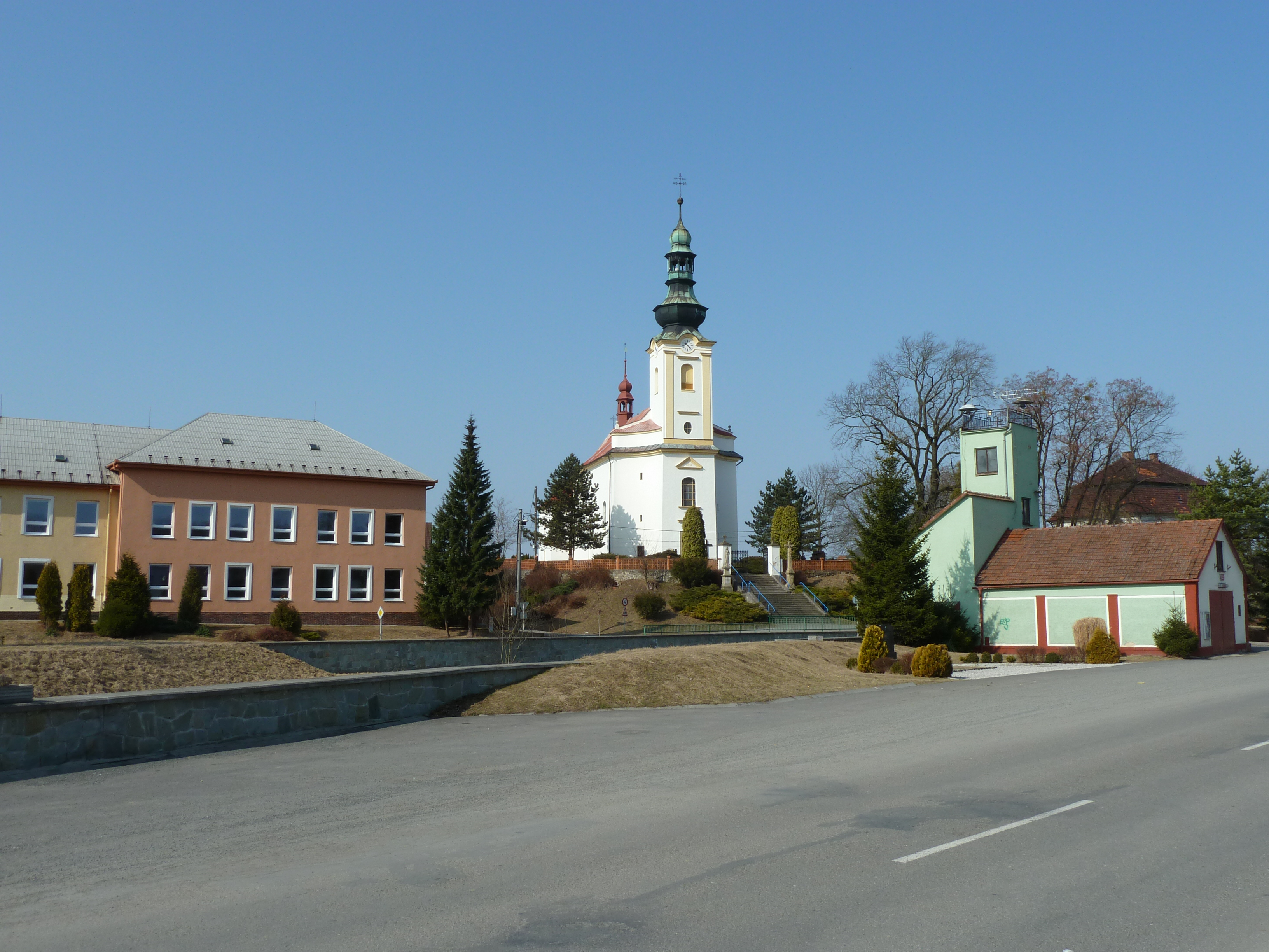 village Sedlnice (Nový Jičín district, nort-eastern Moravia, Czech Republic)